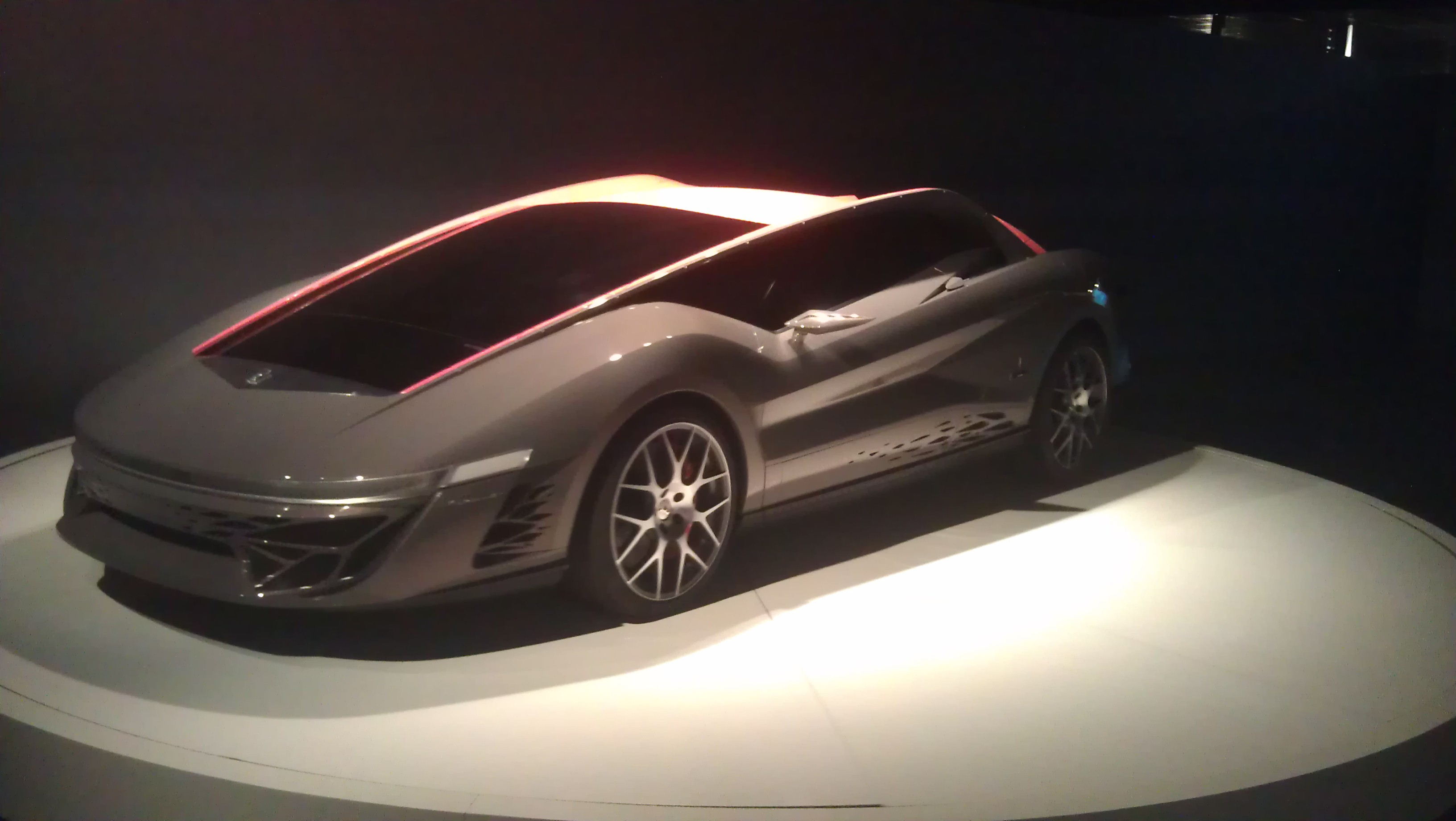 Bertone Nuccio Front Left